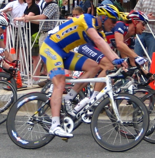 Magnus Bäckstedt (Slipstream-Chipotle), in the blue and yellow kit of the Swedish national champ in the CSC Invitational